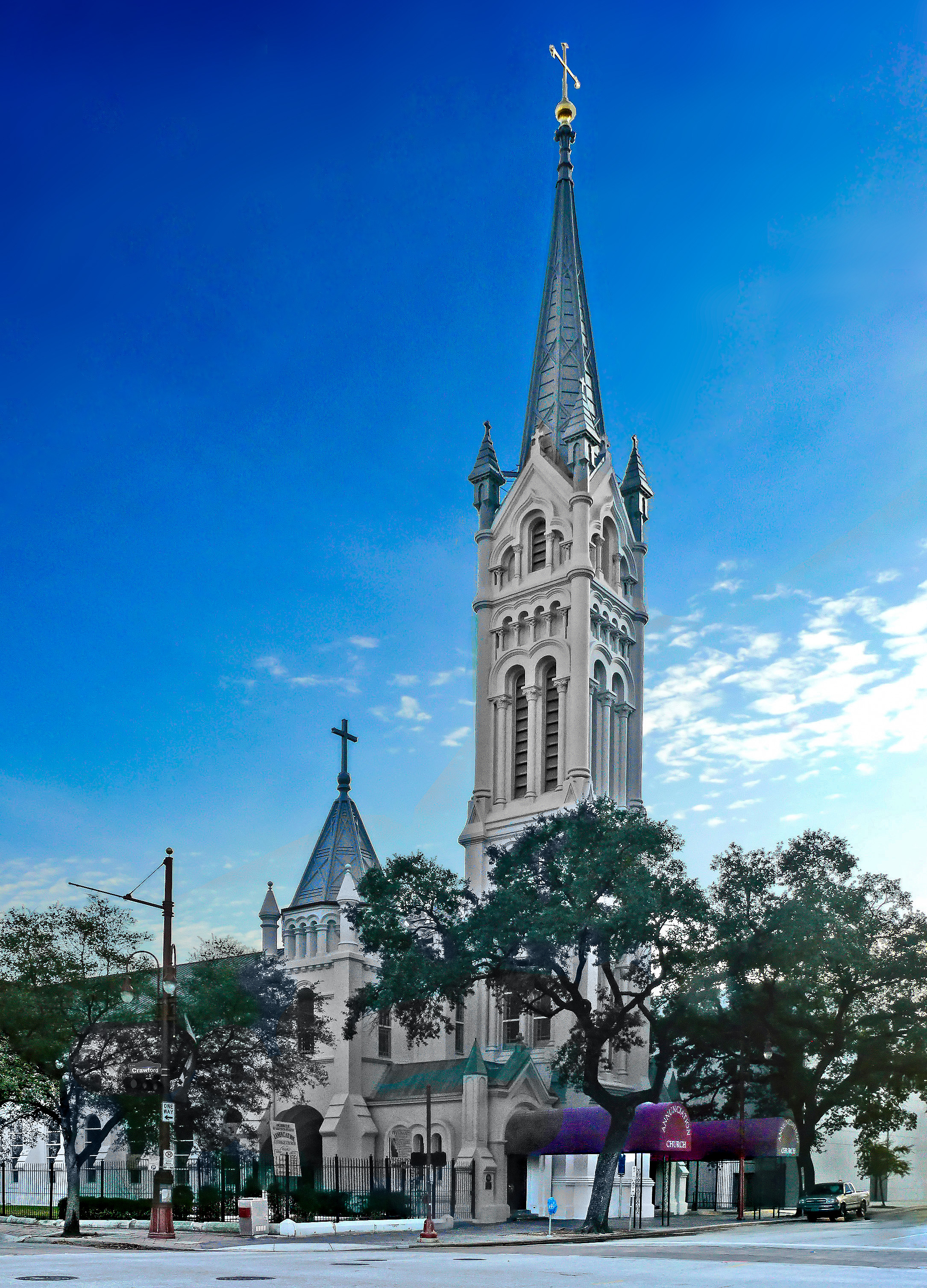 In the style of great European churches, it's the work of the very Rev. Joseph Querat, a canon of Cathedral of Lyons, France, and missionary to Texas 1852-1878. Begun 1867 when Father Querat (with aid of parishioners) bought old Harris County Courthouse to get bricks for foundation; completed 1874. Sacristy and steeple were added 1881-1884 by plans of Nicholas J. Clayton (1849-1916), a leading Texas architect of the late 19th century.